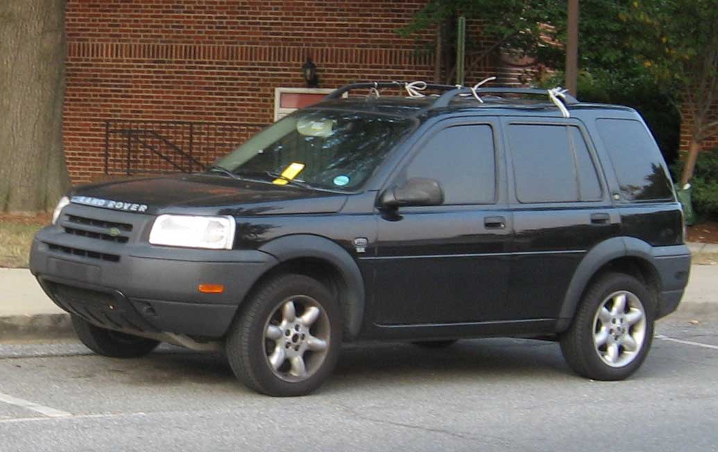 2002-2003 Land Rover Freelander photographed in USA.